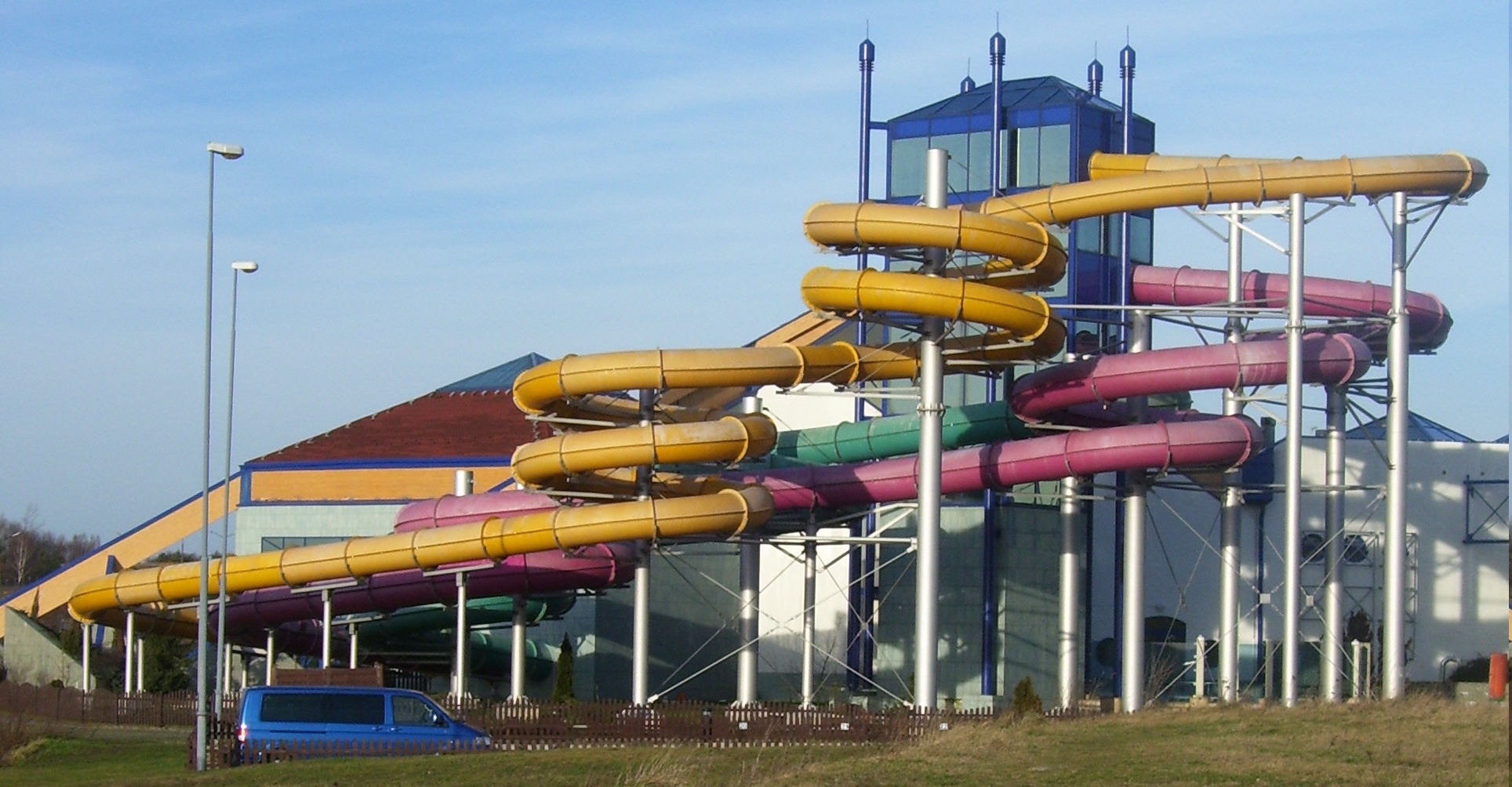 Polkowice, Aqua Park.